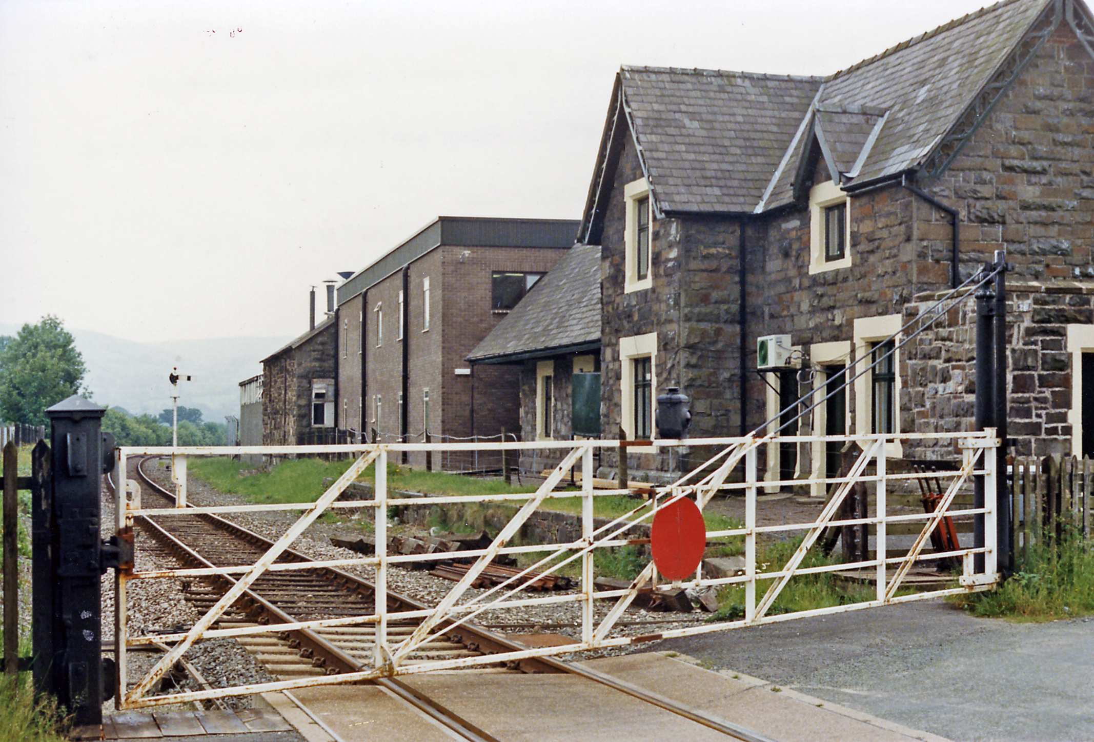 Former Carno station, 1986. View NW, towards Machynlleth etc.: ex-Cambrian main line from Welshpool, Shrewsbury and Whitchurch. The station had been closed from 14/6/65, but by 1986 was in use by Laura Ashley Ltd. (perfumers); the line is still open, although closed Whitchucrh - Buttington (north of Welshpool) since 18/1/65).